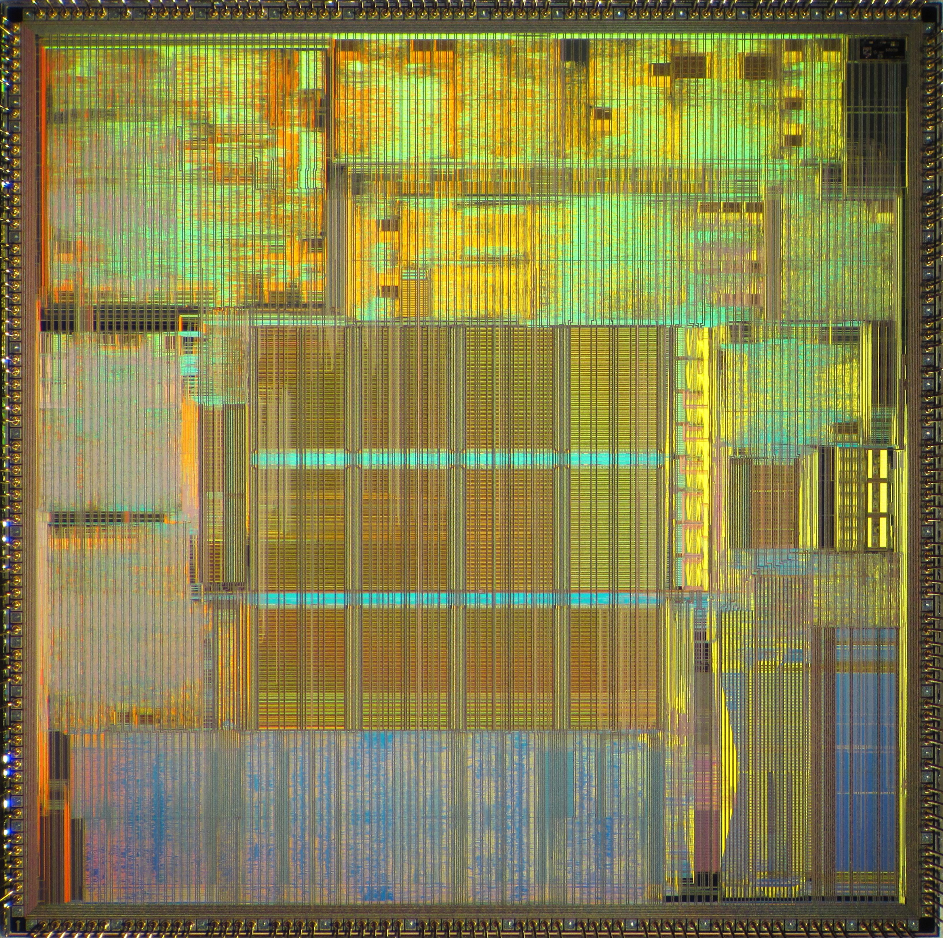 Die shot of Philips TriMedia TM-1100 media processor (PTM1100DBRF 125 MHz).